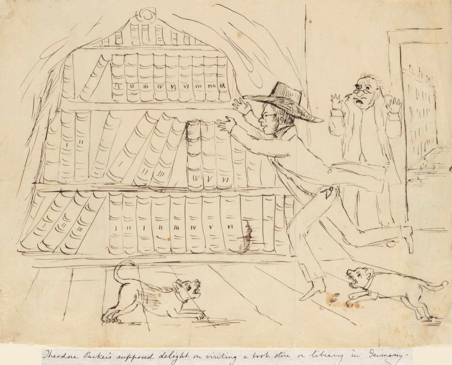 Illustration featuring Theodore Parker, by Christopher Pearse Cranch (1813-1892). Illustrations ca. 1837-1839, collected in 1844 by James Freeman Clarke and erroneously dated 1835. Christopher Pearse Cranch illustrations of the New Philosophy (MS Am 1506), Houghton Library, Harvard University